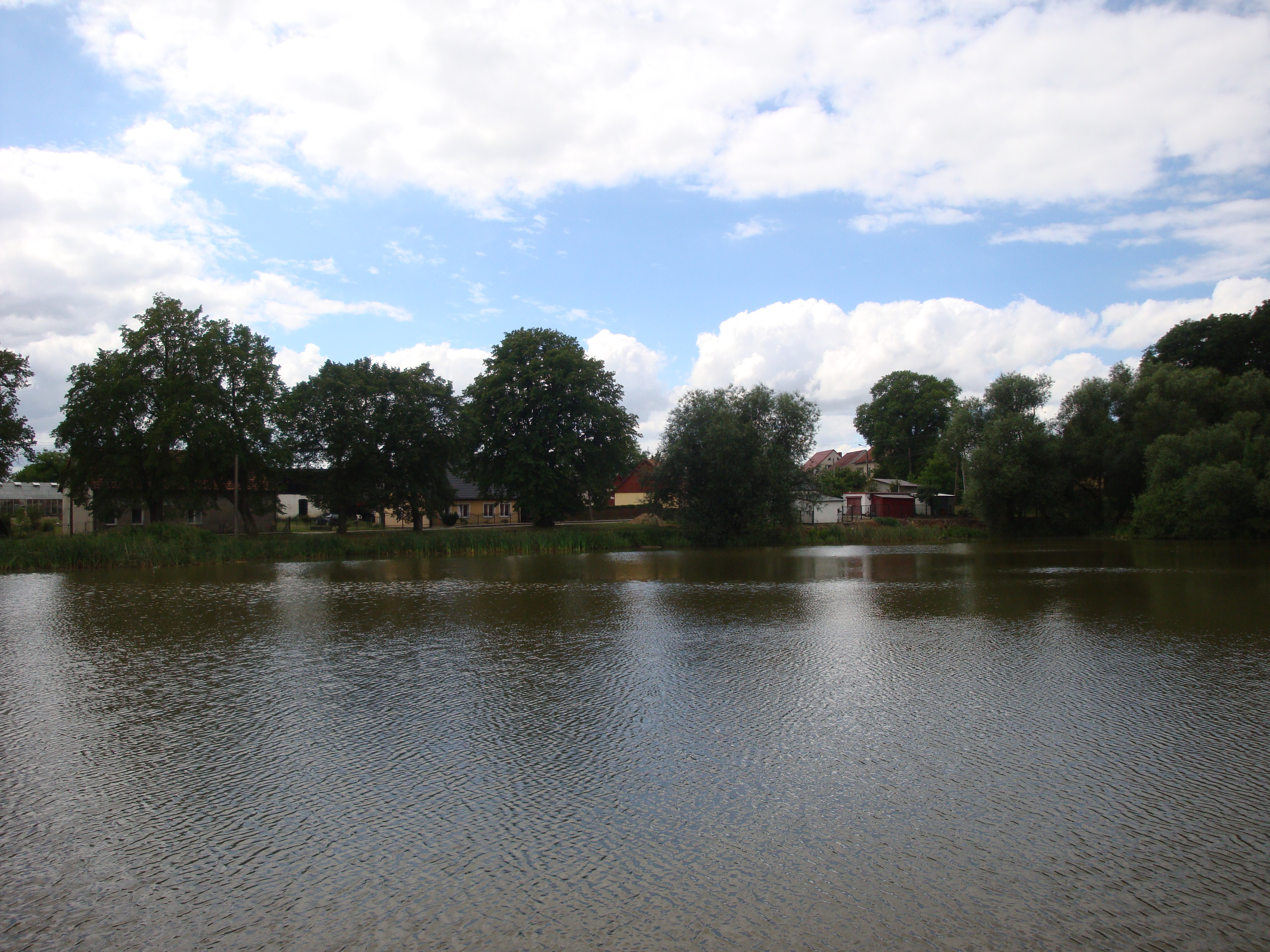 Redkowice-village in Pomeranian Voivodeship, Poland